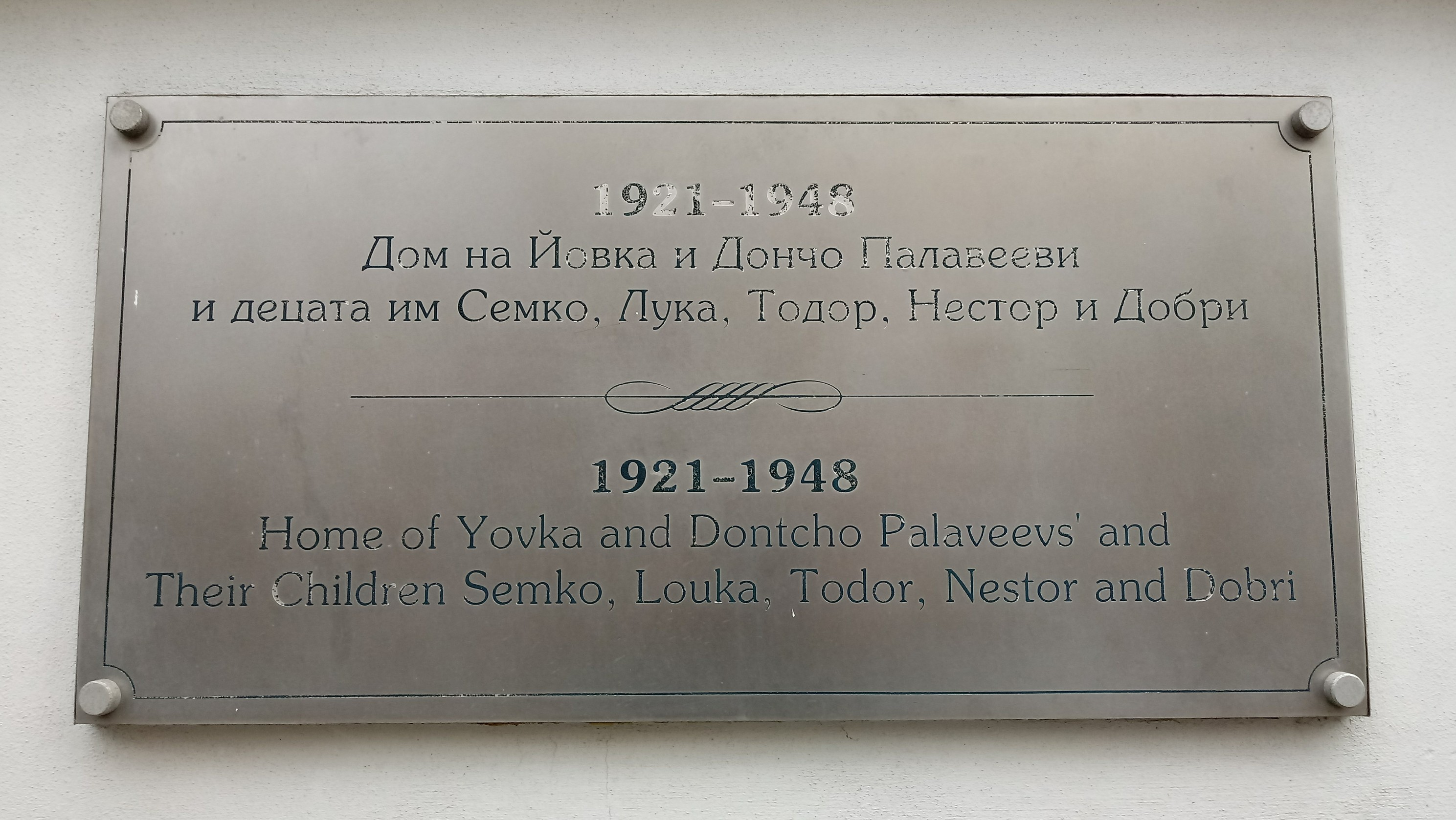 Yovka and Doncho Palaveevi memorial plaque, 7 Krakra Str. Sofia